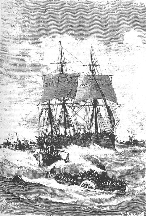 An illustration from Jules Verne's novel "Twenty Thousand Leagues Under the Sea" (1866-69) drawn by George Roux.